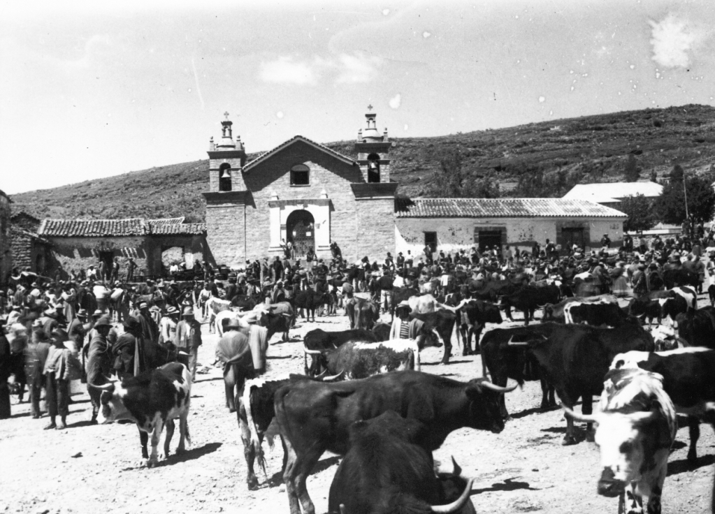 PlazaSanJuanToros